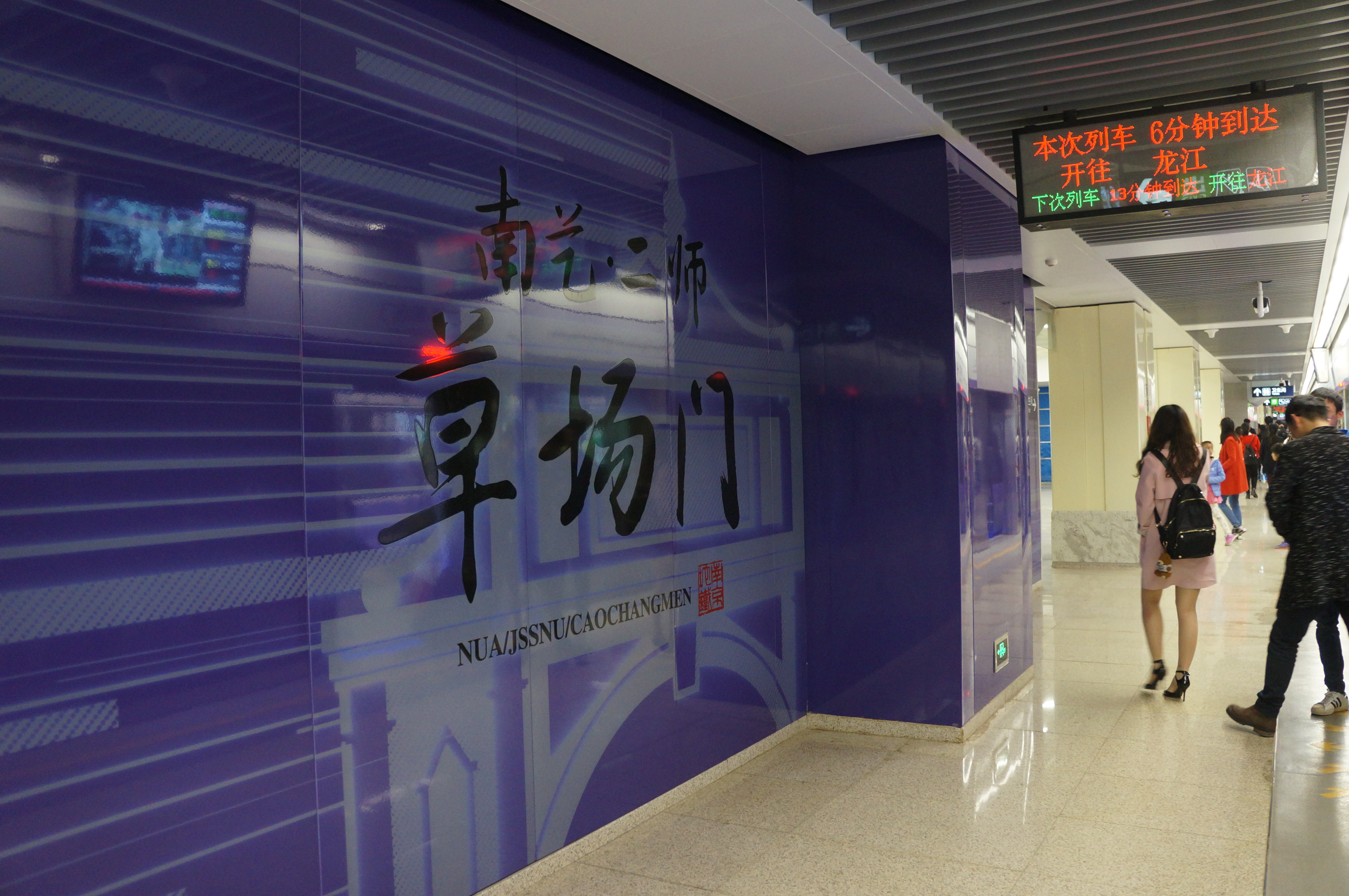 201704 Nameboard of Caochangmen Station, the announcement on trains only says the name of Caochangmen